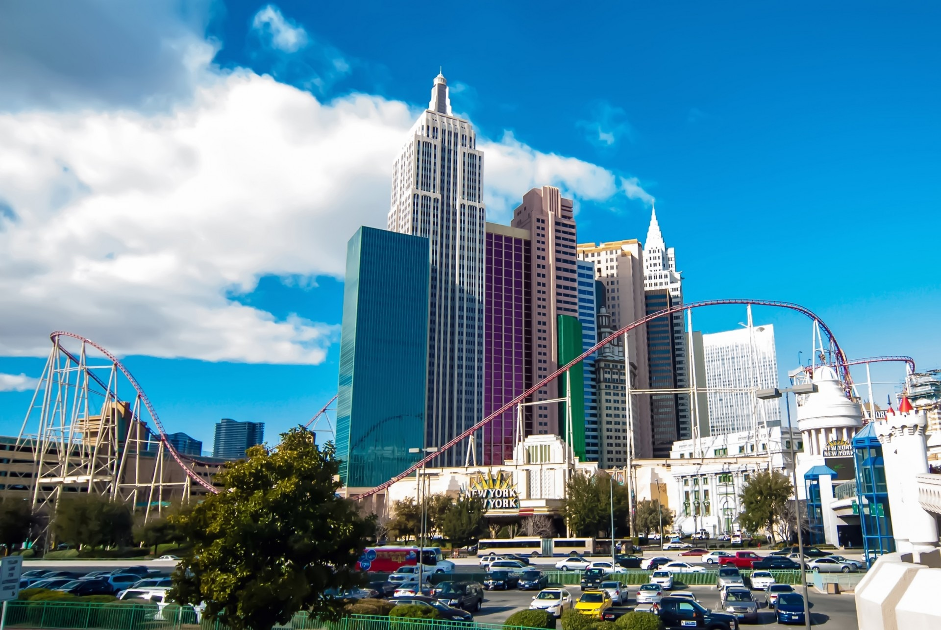 New York-New York Hotel & Casino on the Las Vegas Strip